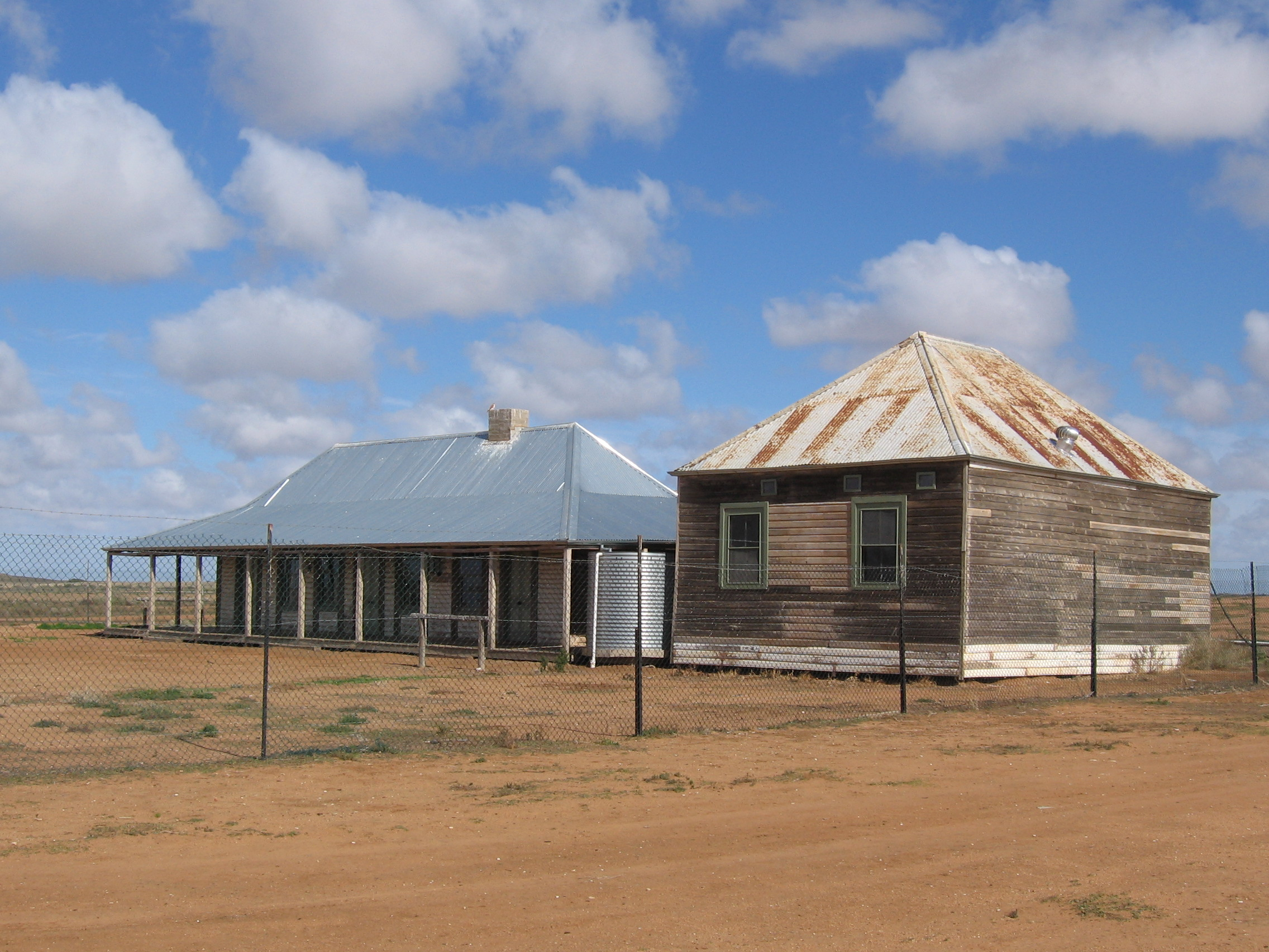 The partially rebuilt One Tree Hotel at One Tree, New South Wales